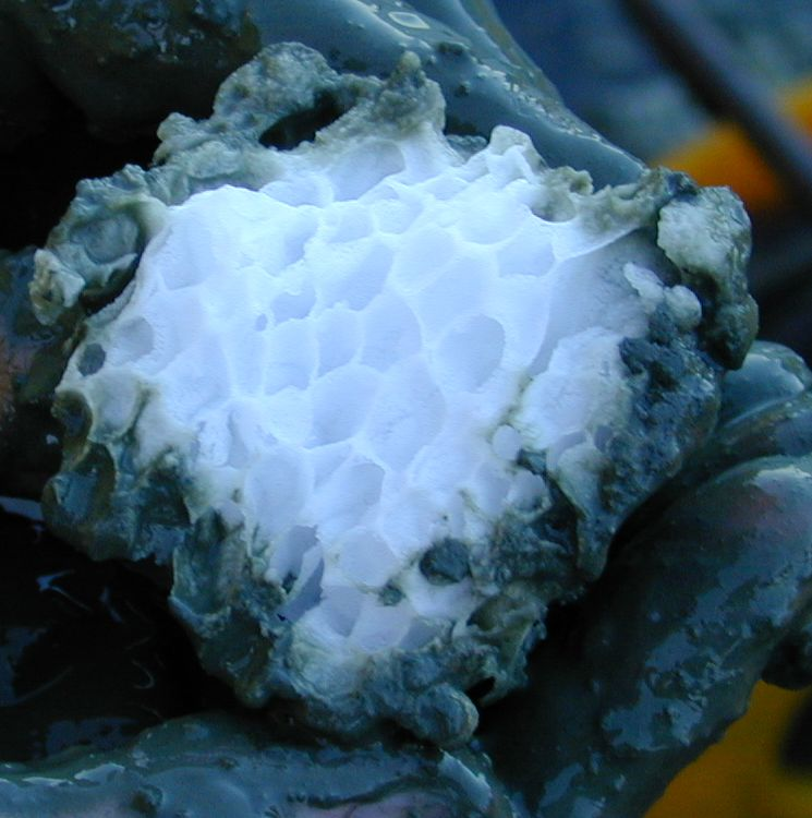 Structure of a gas hydrate (methane clathrate) block embedded in the sediment of hydrate ridge, off Oregon, USA. The gas hydrates have been found during a research cruise with the German research ship FS SONNE in the subduction zone off Oregon in a depth of about 1200 meter within the uppermost meter of the sediment.